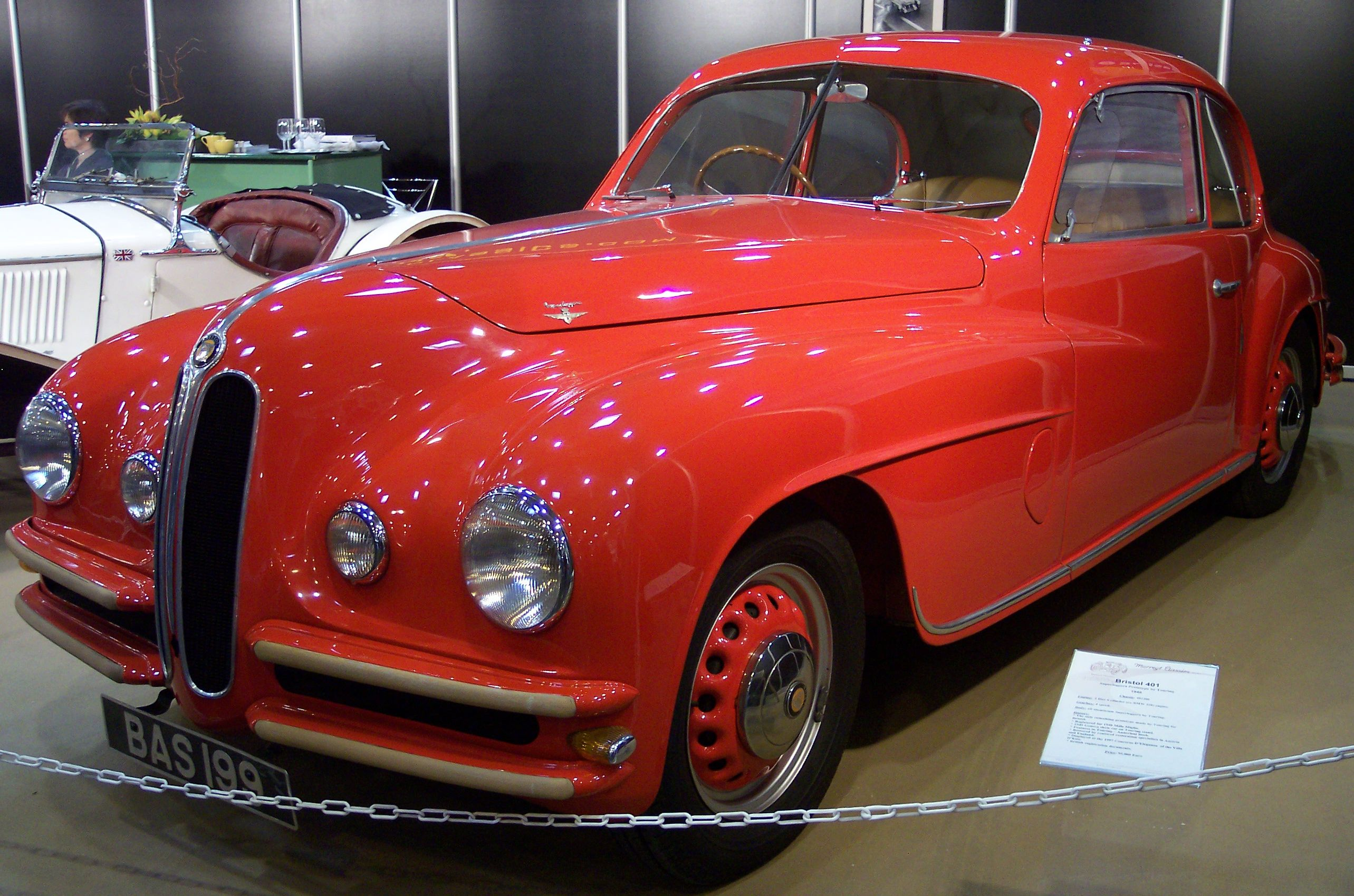 1948 Bristol 401 2-door Saloon, coachwork by Touring Superleggera